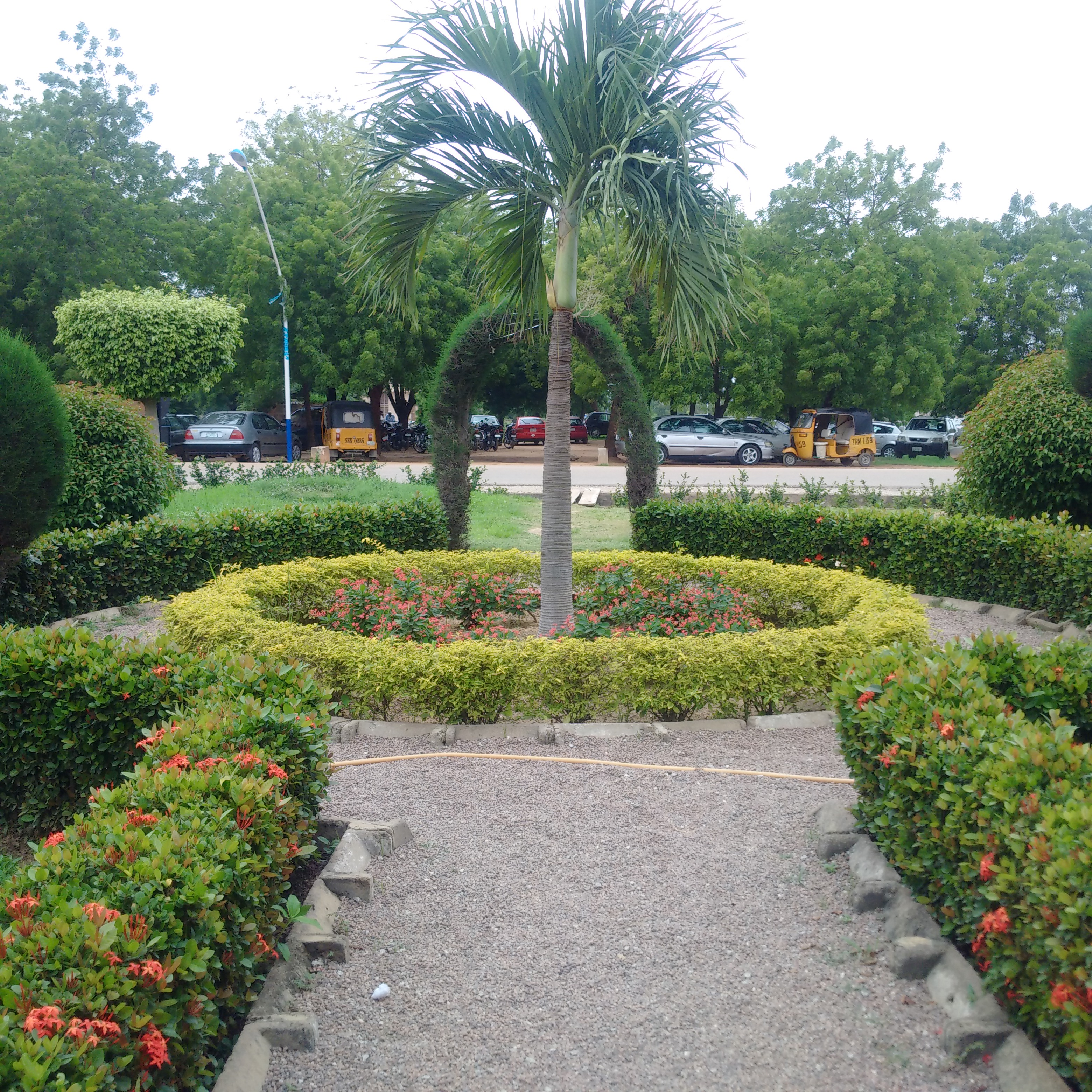 The beauty of AKTH This is an image from Nigeria